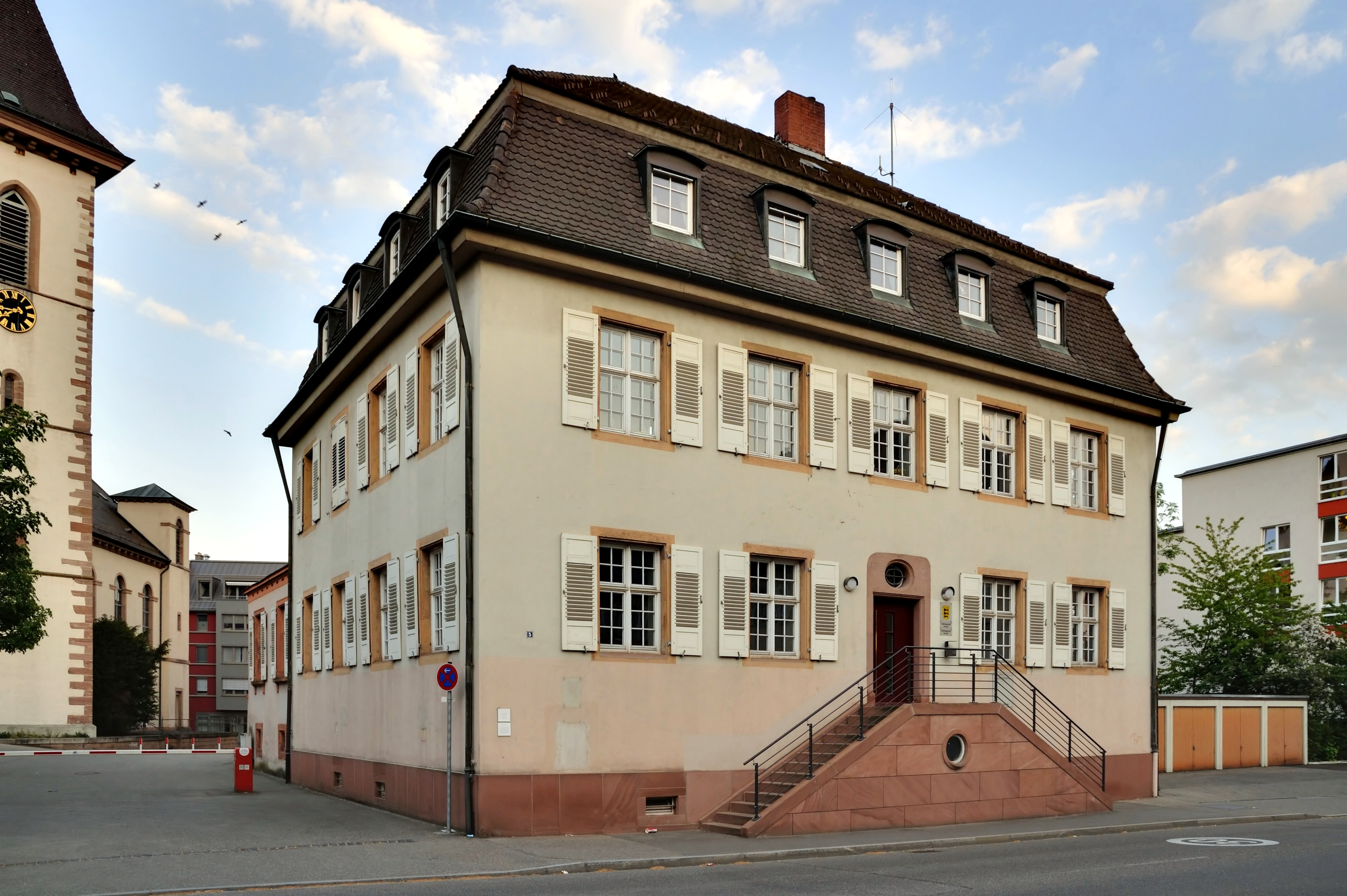 Lörrach: Local Labour Court